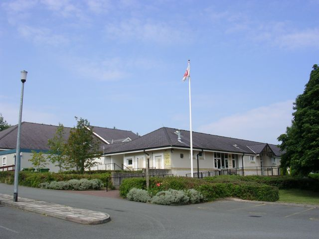 Oriel Ynys Mon. Anglesey Heritage Museum and Gallery. Situated on the outskirts of Llangefni. Taken from SH459765 looking N.